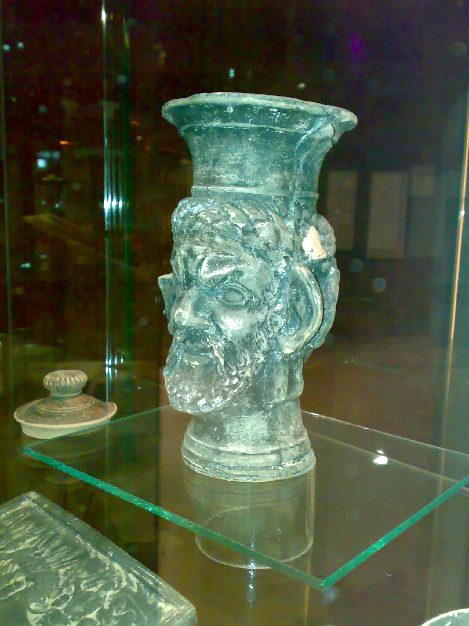 Figure head from 3rd Century, from excavation before construction of Avala Hotel in Budva, Montenegro. Photo shot in Hist Museum, Cetinje